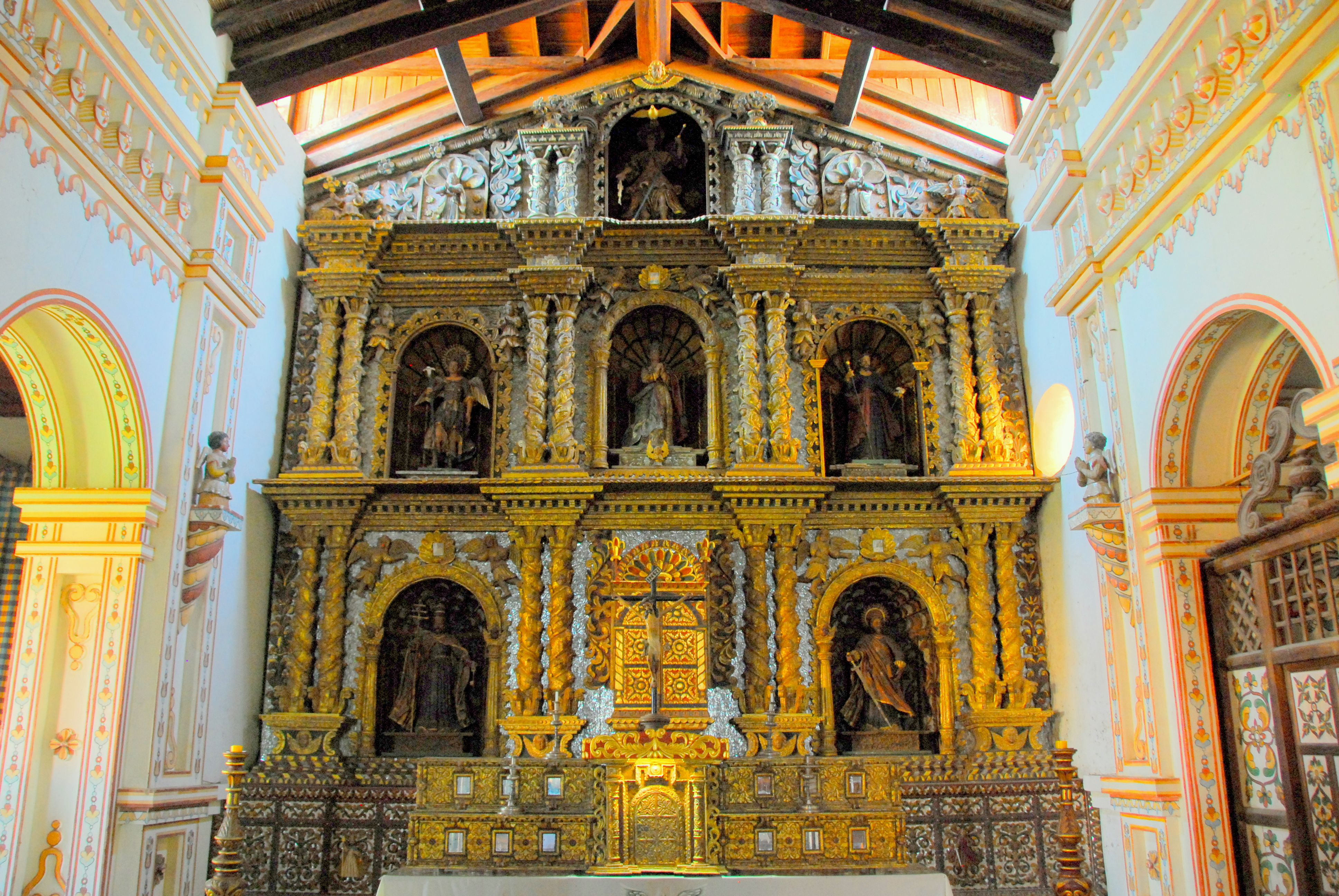 Altar in the church of San Rafael de Velasco, Santa Cruz, Bolivia. Part of the Jesuit Missions of the Chiquitos World Heritage Site.